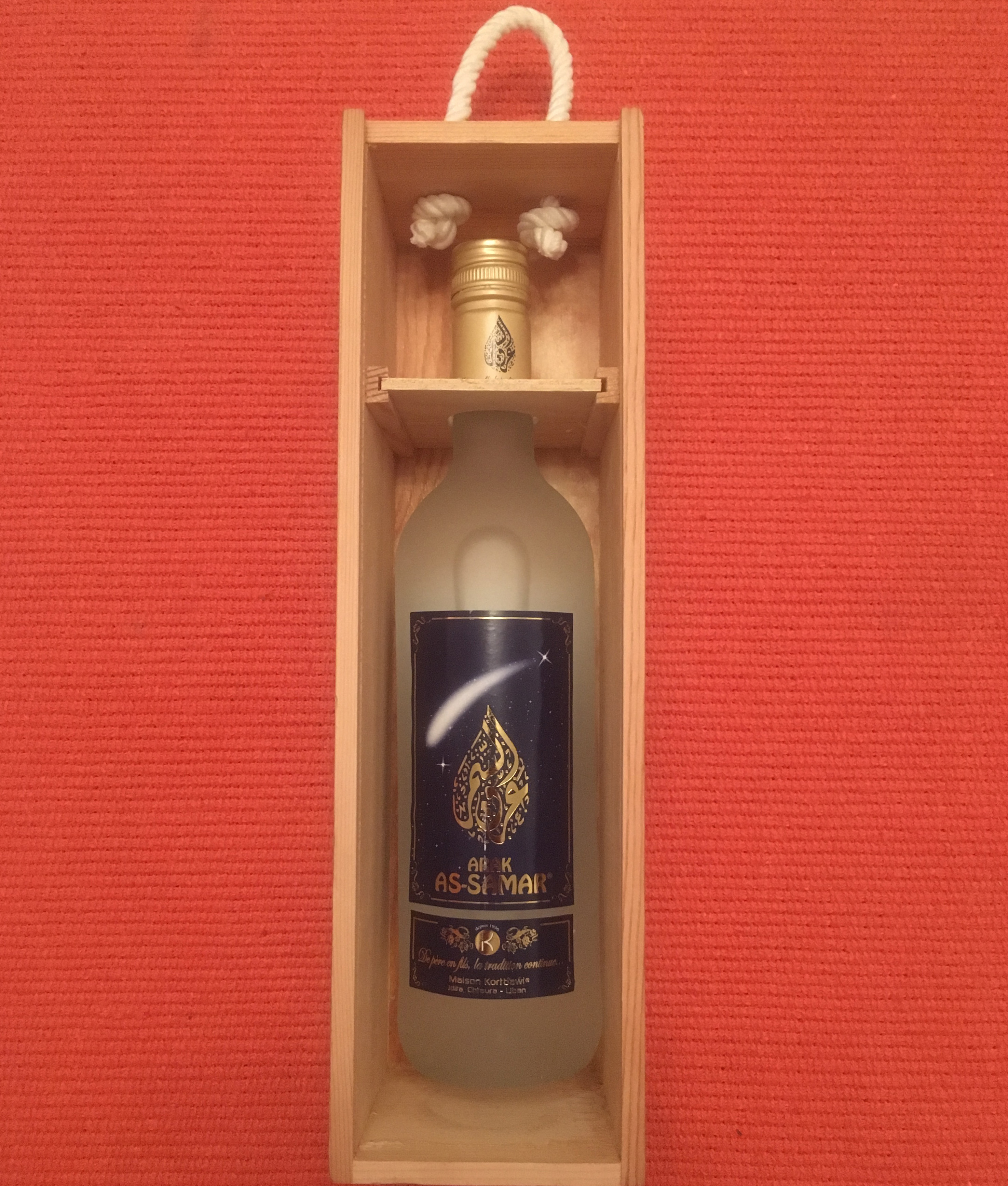 Arak Alsamar